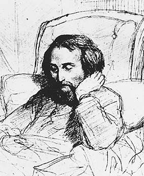 Portrait of Heinrich Heine at his "mattress-grave" (Matratzengruft)